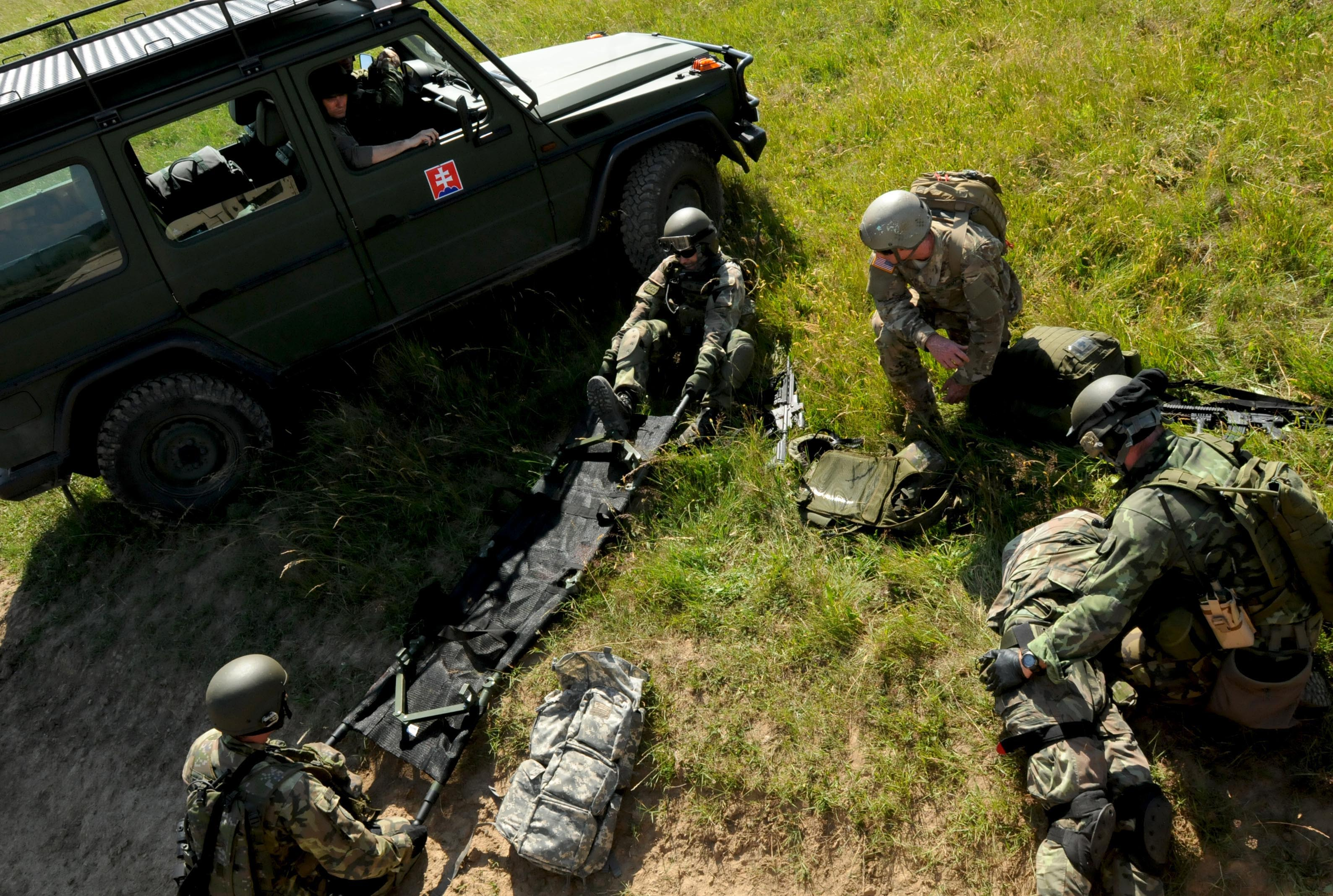 Lubomir Galko, Minister of Defence of the Slovak Republic, inside vehicle, observes members of the Slovak 5th Special Forces Regiment (SFR) conduct first aid training on a simulated casualty at the Military Training Center Lest in Slovakia. A U.S. Army Special Forces medic, second right, assigned to 1st Battalion, 10th Special Forces Group (Airborne) serves as an advisor during the Partnership Development Program event. (U.S. Army photo by Master Sgt. Donald Sparks – photo approved for official